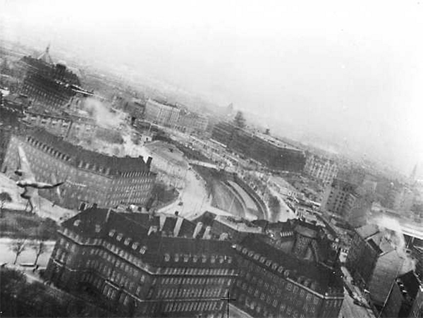 Bombing of The Gestapo headquarters in Shellhuset house, Copenhagen by the RAF. This was Operation Carthage